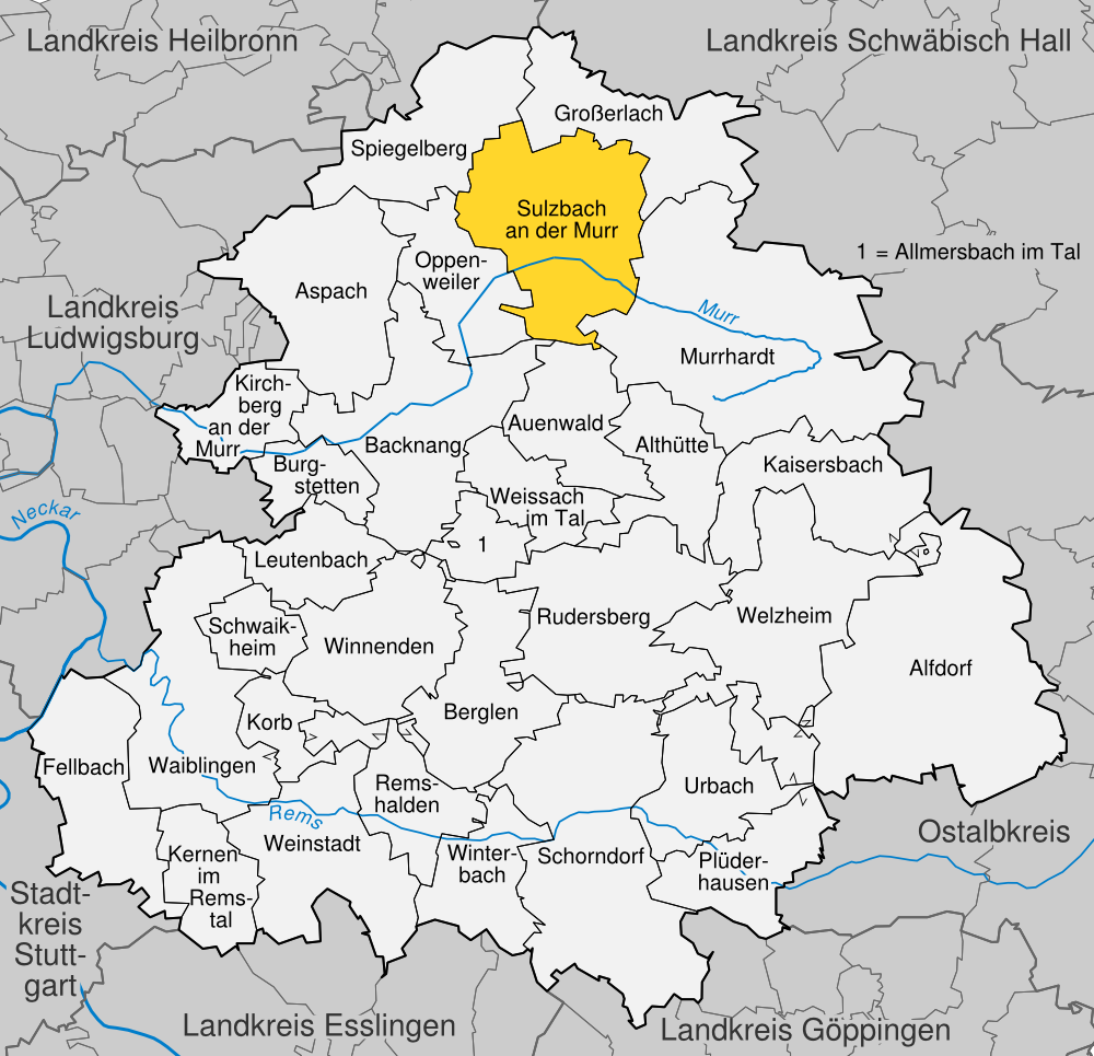 position of Sulzbach an der Murr within the Rems-Murr-Kreis, Baden-Württemberg, Germany